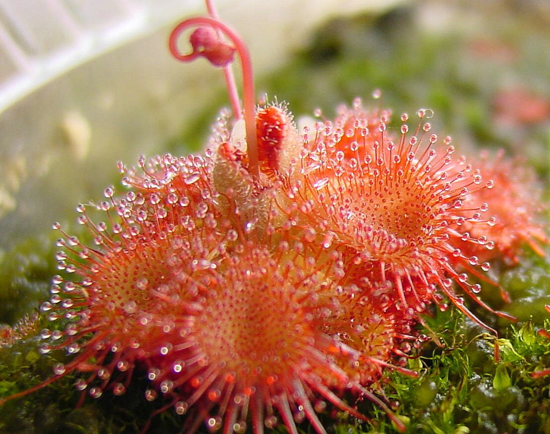 Drosera sessilifolia in cultivation, grown by Forbes Conrad